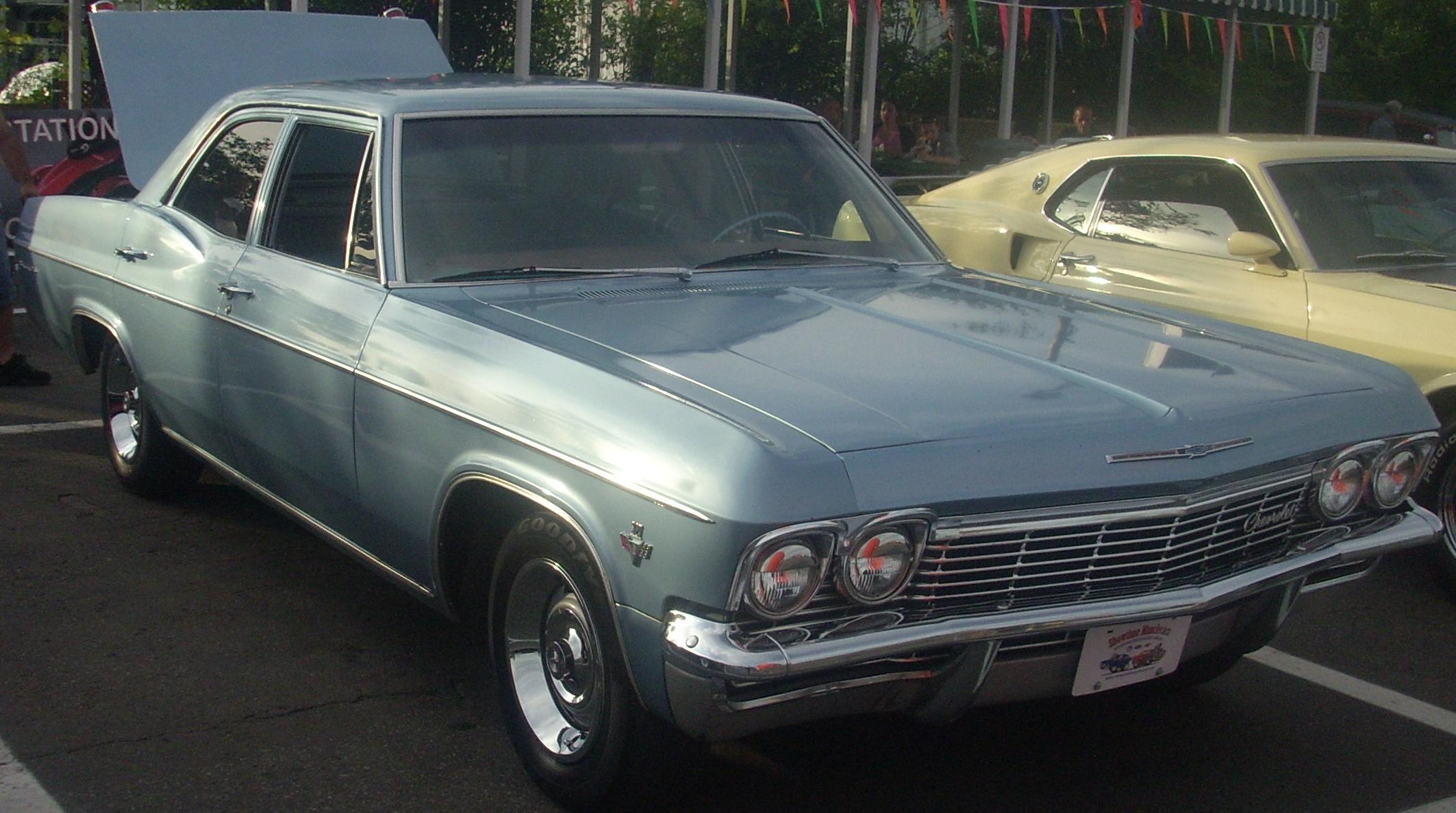 Chevrolet Bel Air photographed in Montreal, Quebec, Canada at Gibeau Orange Julep.